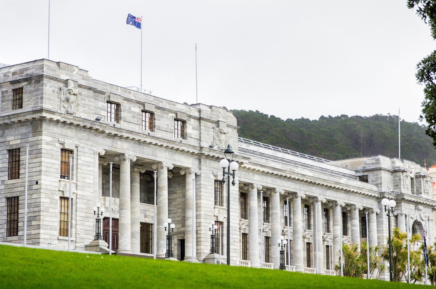 The outside of Parliament House, Wellington